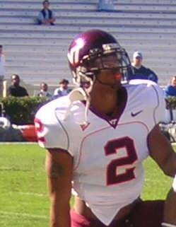 Jimmy Williams (en), former Virginia Tech cornerback. Taken at Virginia Tech's 2004 game @UNC in Kenan Stadium. (Note: the date in the EXIF data is wrong - the date on my old camera was incorrect.)